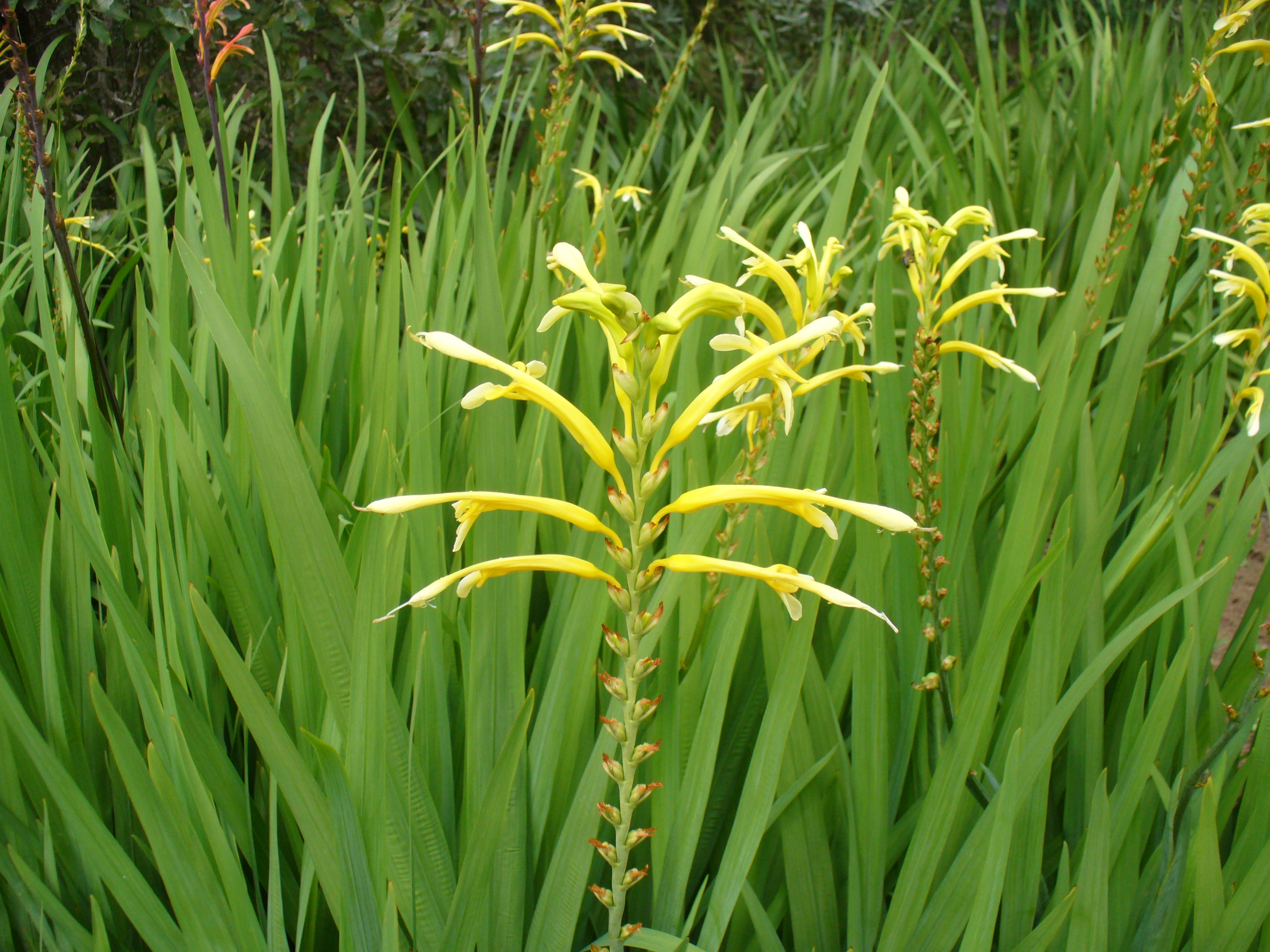 Kirstenbosch Gardens Cape Town